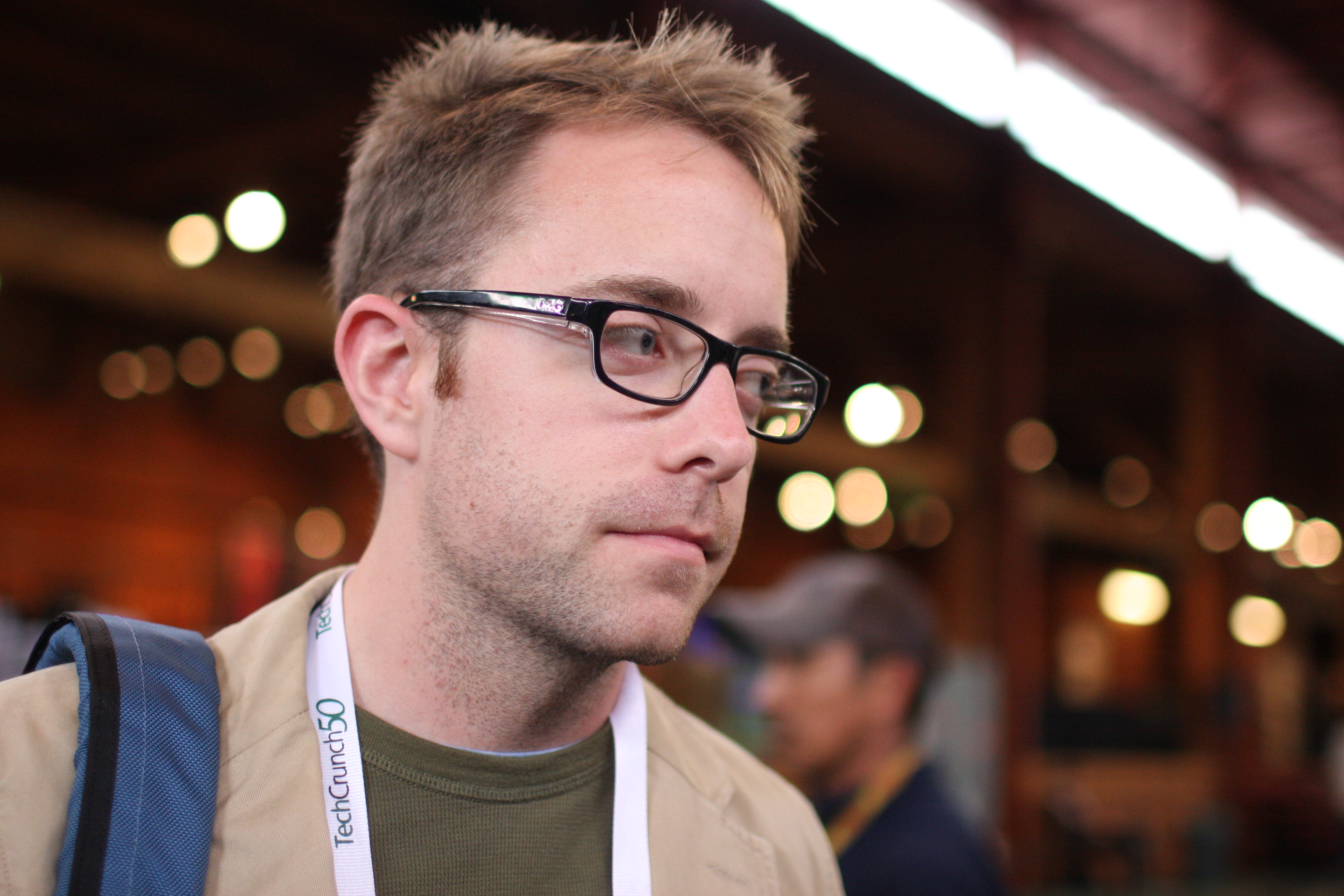 American venture capitalist and journalist M. G. Siegler in 2008. Photographer's description: "(CC) Brian Solis, and . Feel free to use this picture. Please credit as shown."